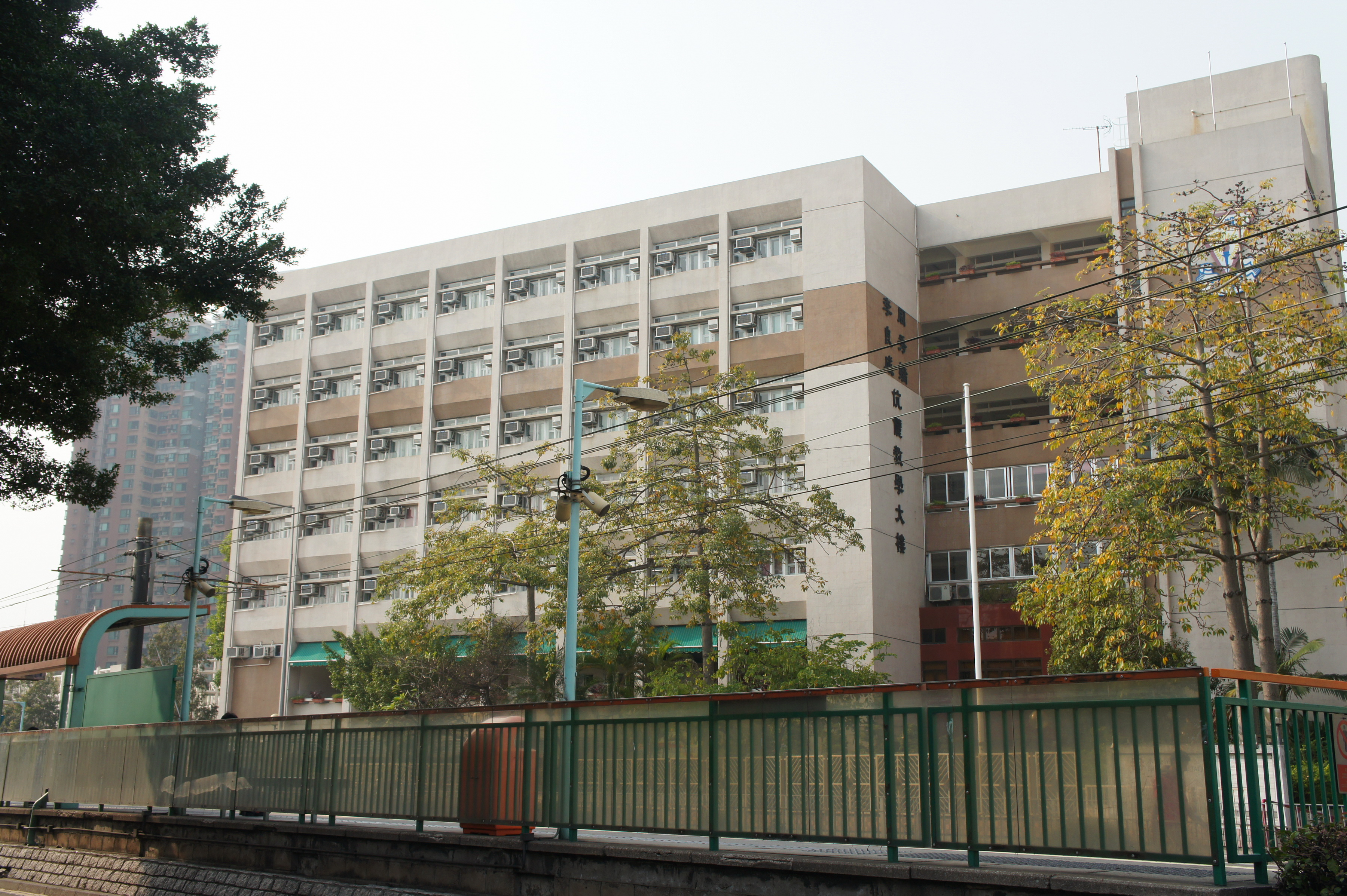 Kwong Ming School, Yuen Long, Hong Kong.